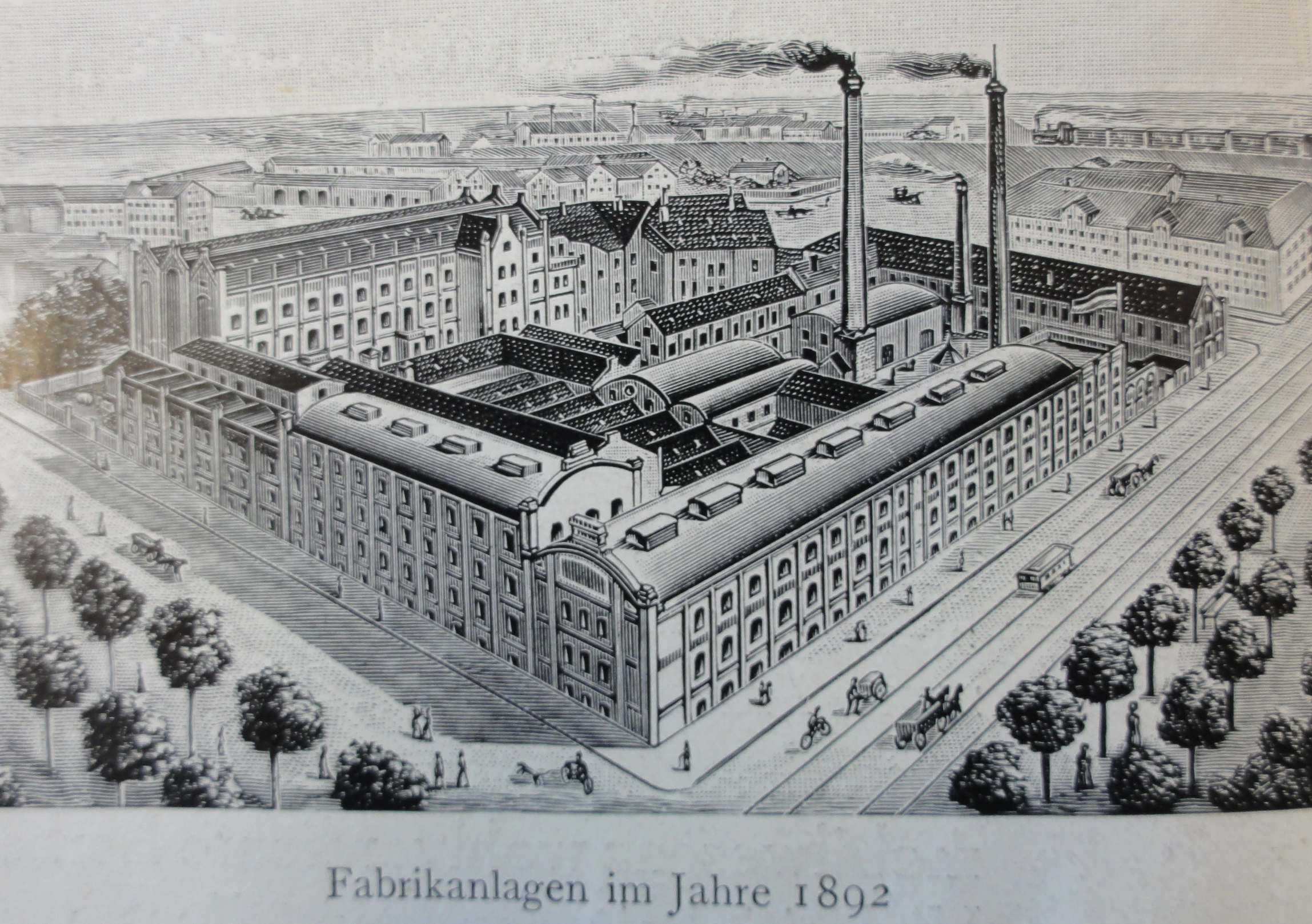 Hannover Gummikamm Werk 1892, historical view 30 year after the foundation